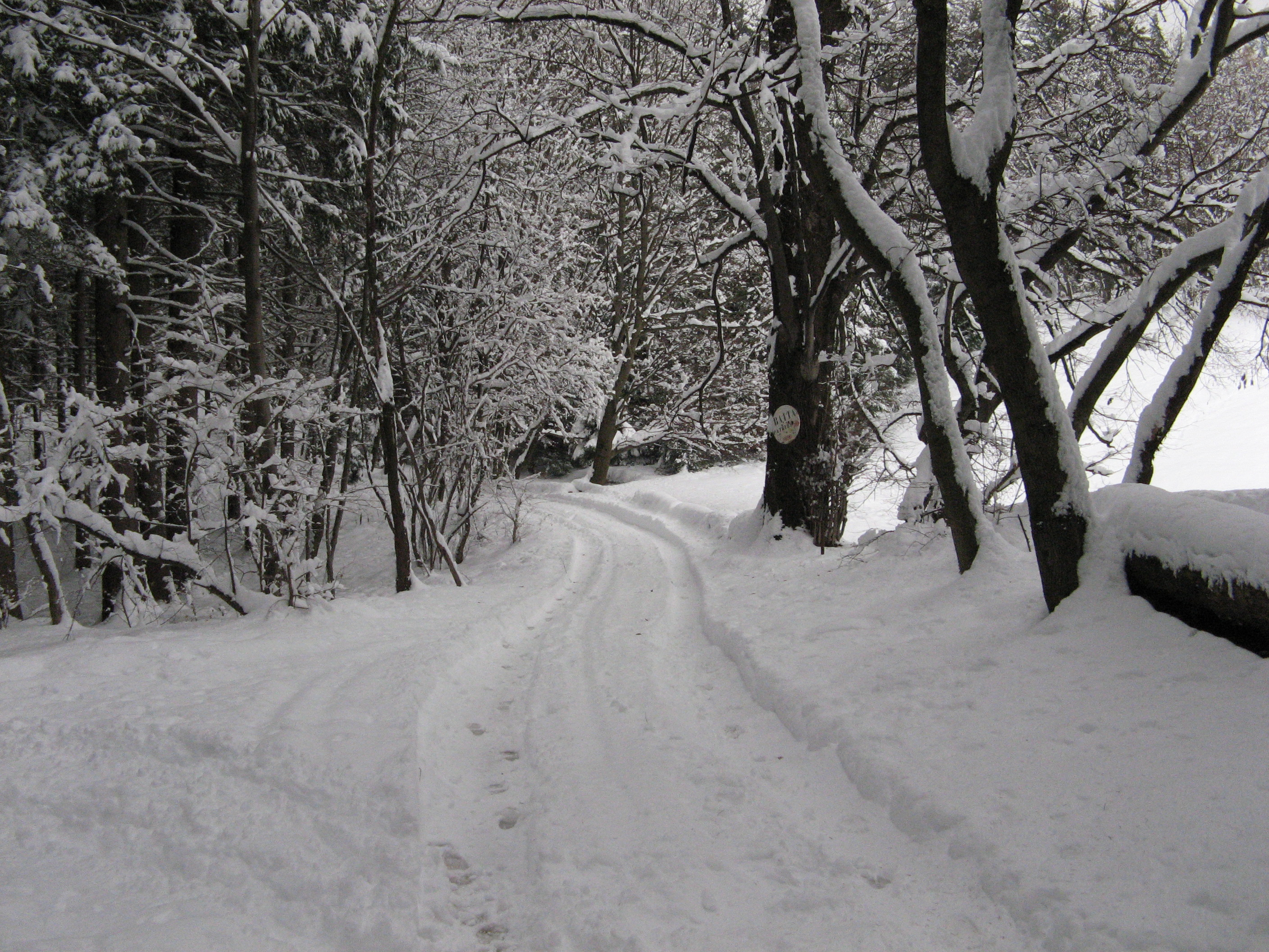 winter view of a mountain path in Albavilla-Alpe del Vicerè